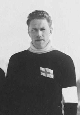 Clas Thunberg (left) and Ossi Blomqvist at the 1931 World Speedskating Championships in Helsinki